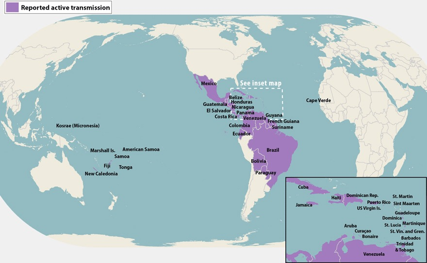 All Countries and Territories with Active Zika Virus Transmission